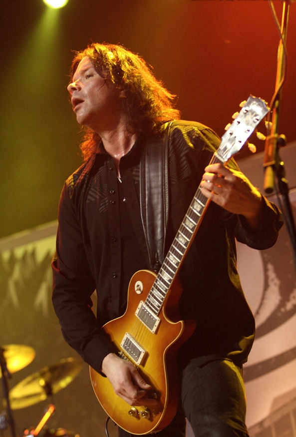 John Norum by Enrico Dal Boni